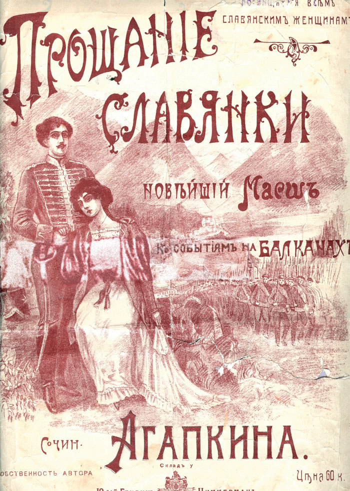 The cover of the first edition of the march "The Farewell of a Slavyanka". 1912